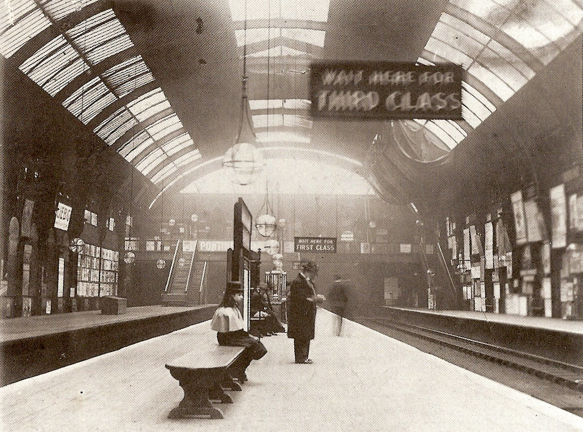 High Street Kensington Underground station in 1892. Picture shows signs showing where the First and third class coaches will arrive. Most First class journeys on the underground were discontinued in 1940 as part of the war effort. Trains to Aylesbury and Watford had First class accommodation until 1941.